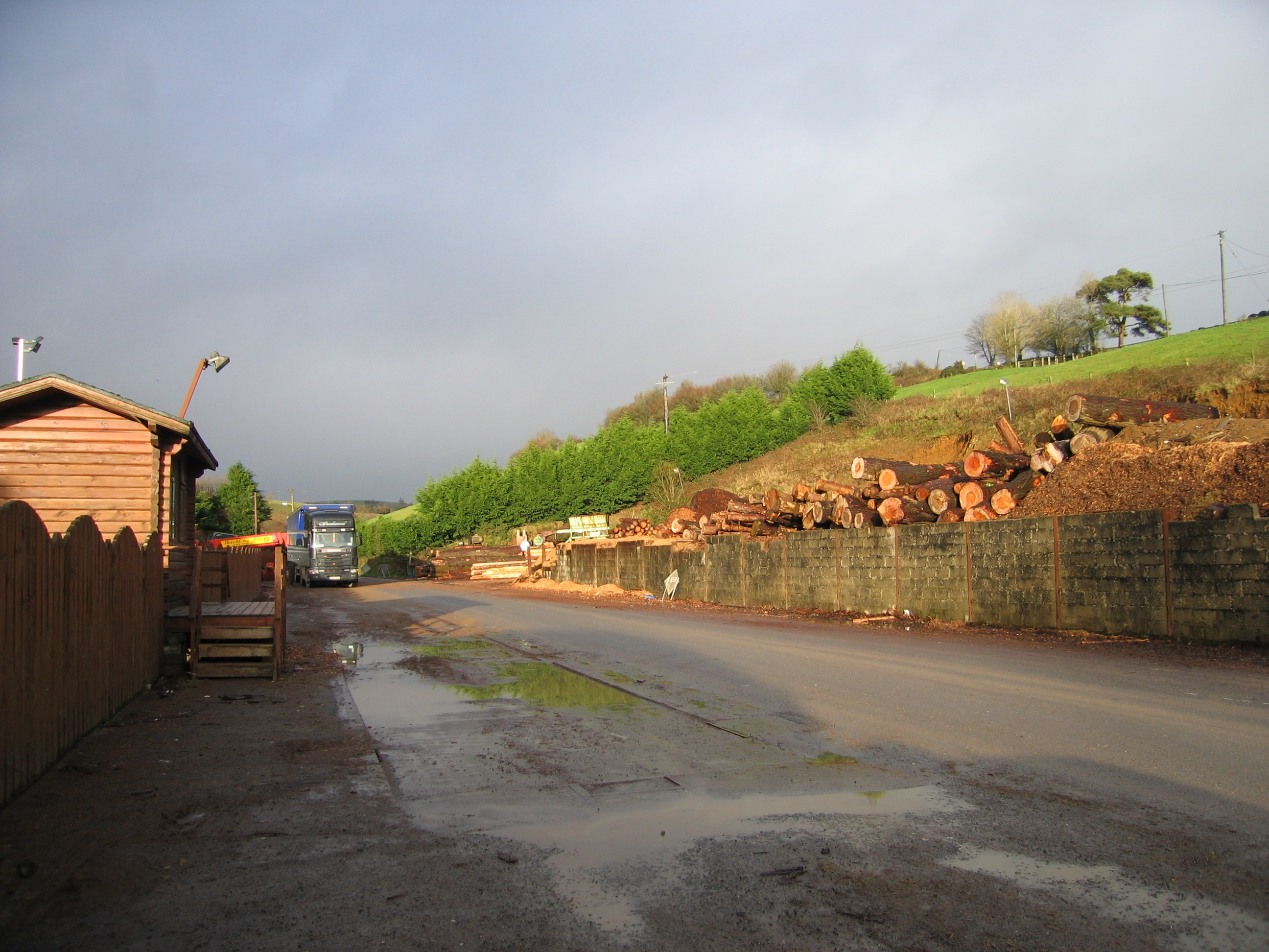 Hollyford, County Tipperary. Sawmill and logyard straddling the Regional road.